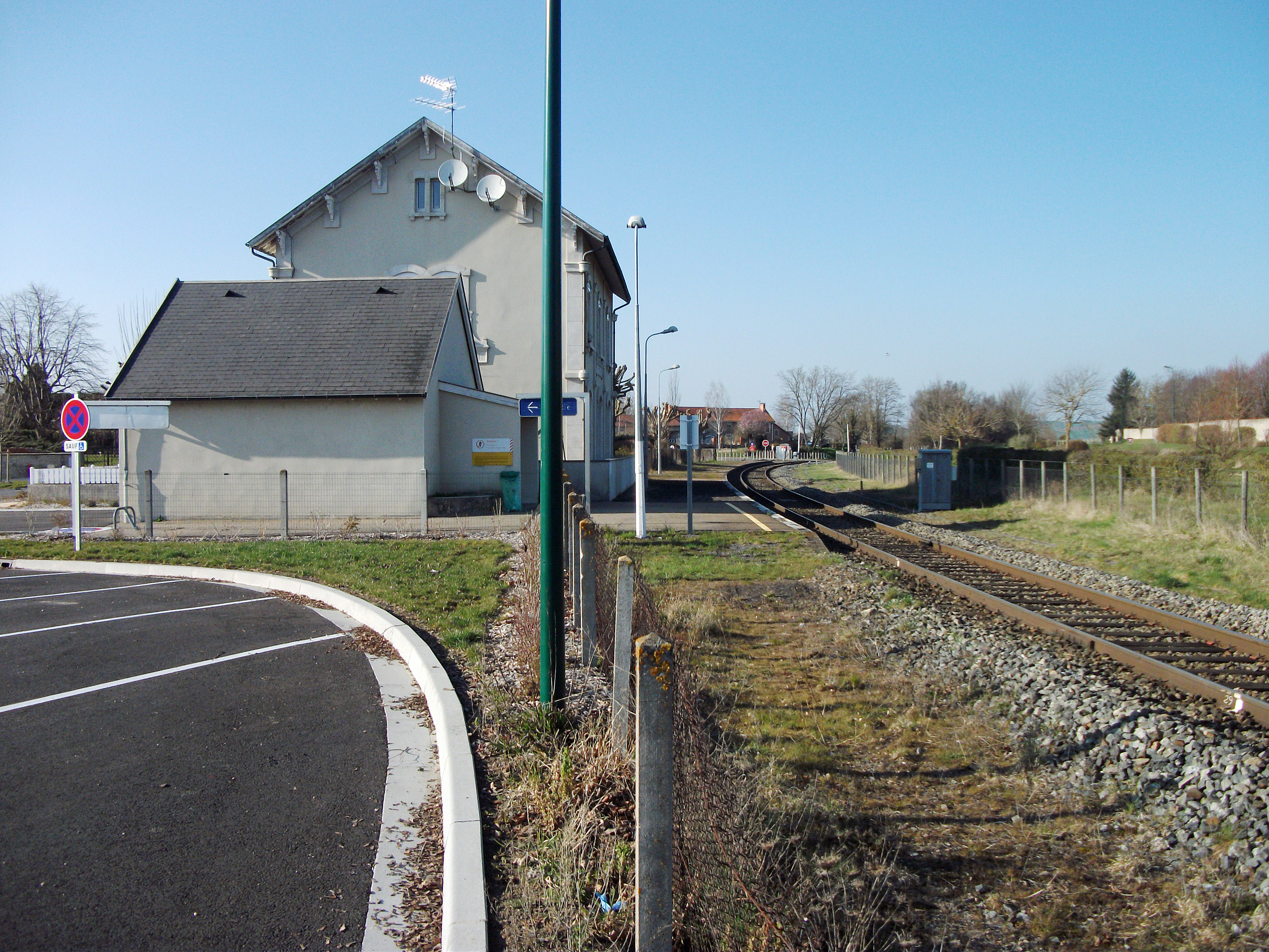 Platform of the Saint-Bonnet-de-Rochefort railway station, in the Commentry–Gannat railway [10473]